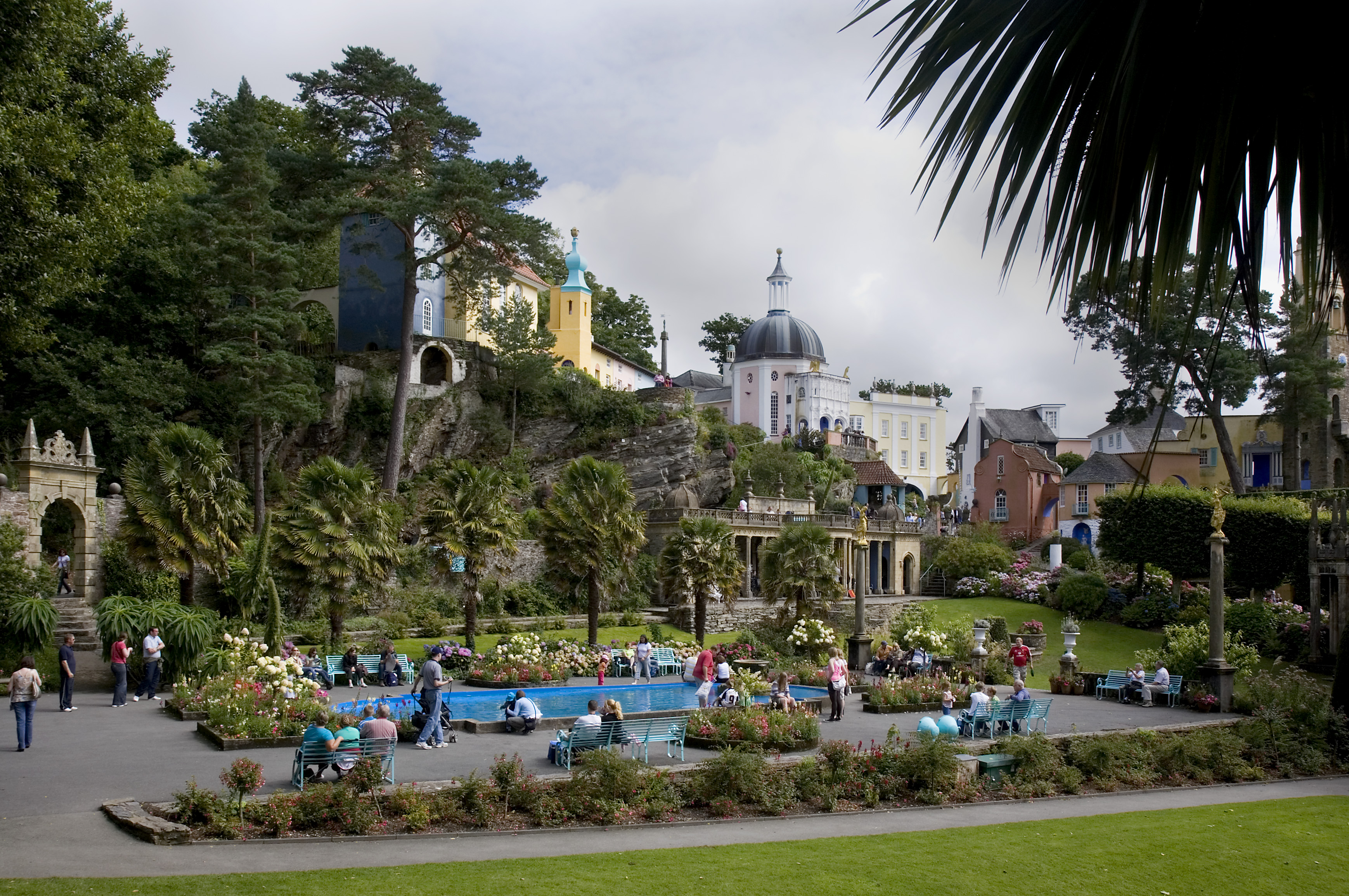 Portmeirion. View of the central plaza. Wikidata has entry Q29484470 with data related to this item.